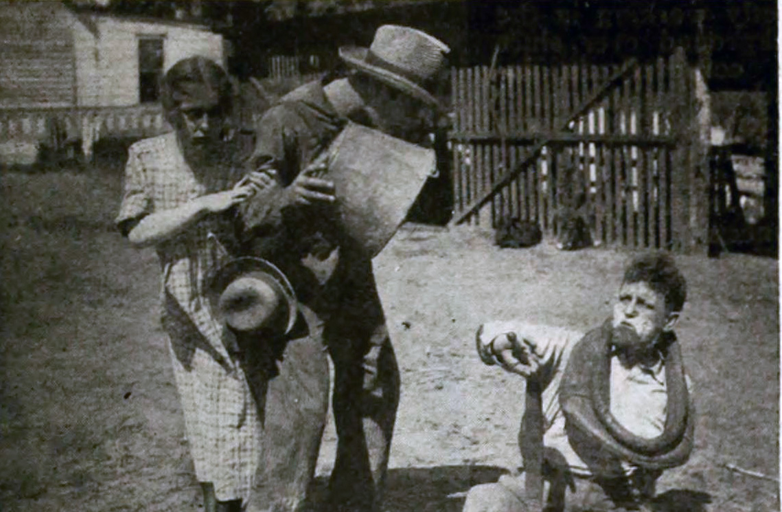 Illustration of an article in The Moving Picture World